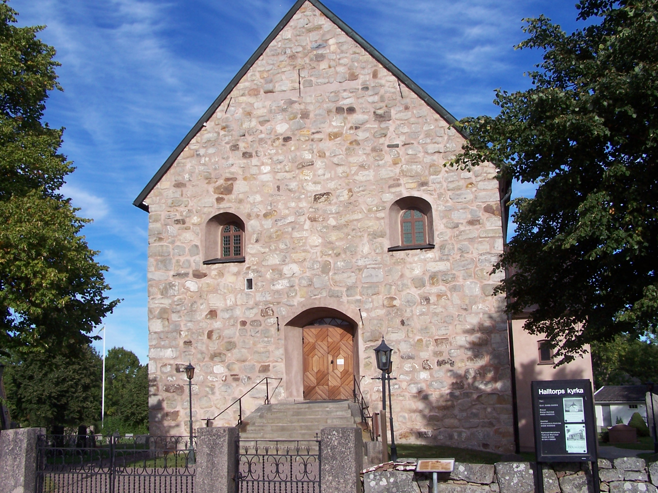 Halltorp church, Sweden - Exterior from west